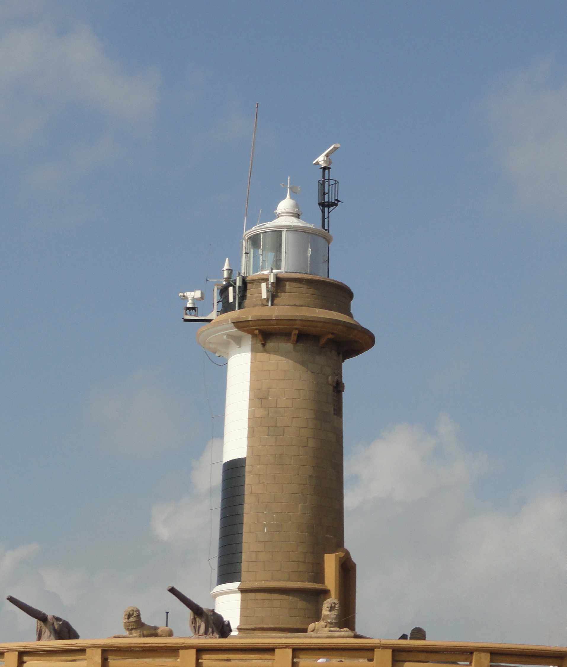 The Colombo Lighthouse, at the Colombo Harbour, Sri Lanka.